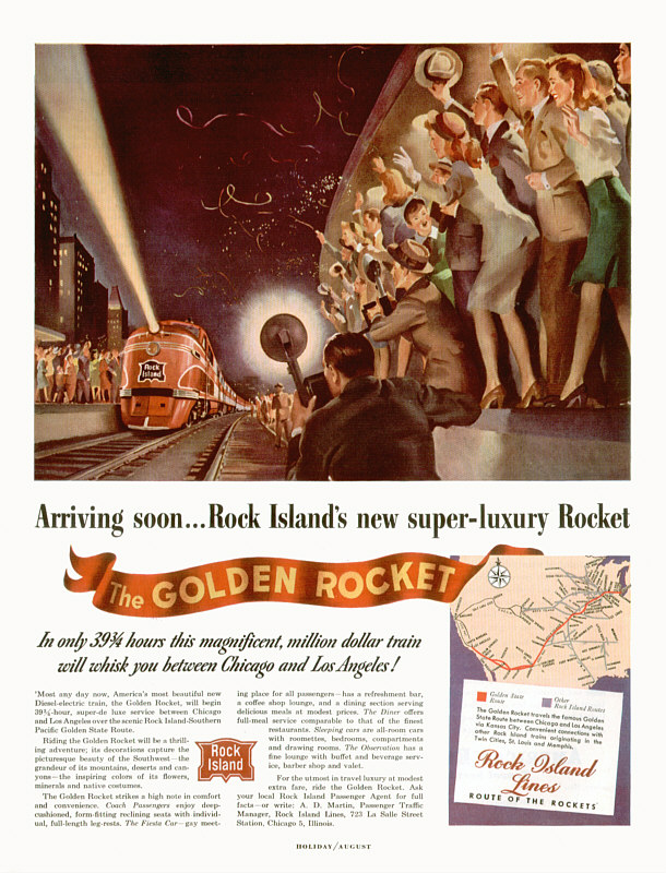 The Rock Island's ad for the Golden Rocket, a train which never entered service.